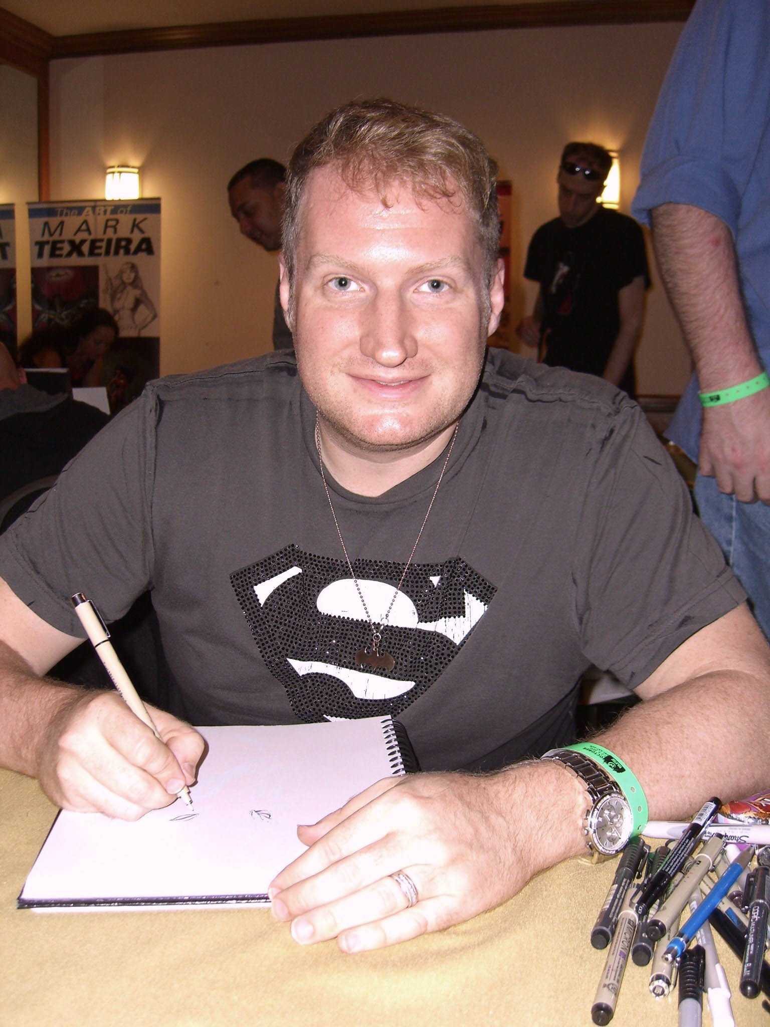 Comic book creator Ethan Van Sciver at the Big Apple Convention in Manhattan, October 2, 2010. This photo was created by Luigi Novi. It is not in the public domain, and use of this file outside of the licensing terms is a copyright violation.